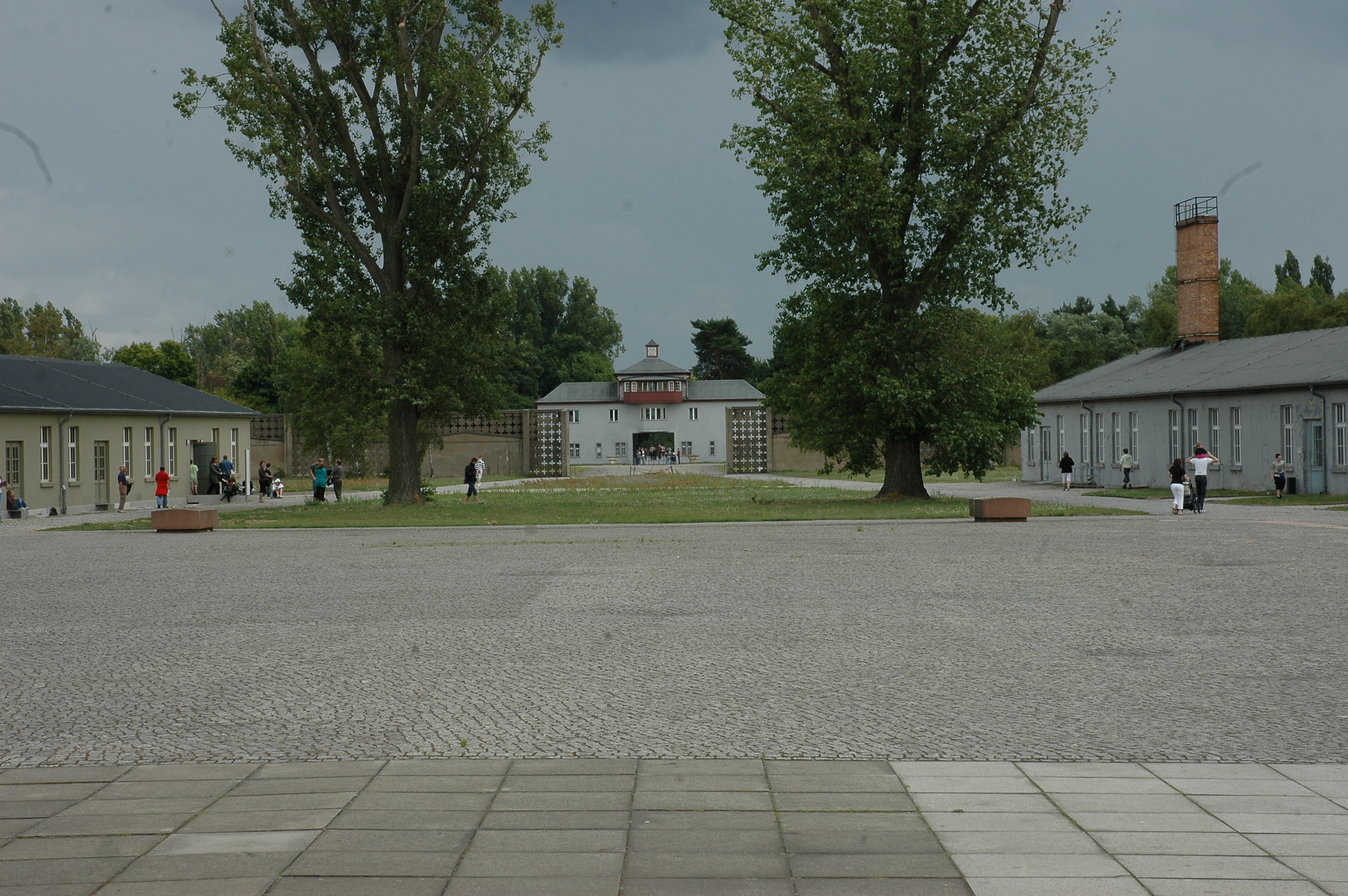 Look towards the gate in Sachsenhausen consentration camp Mot hovedporten i Sachsenhausen